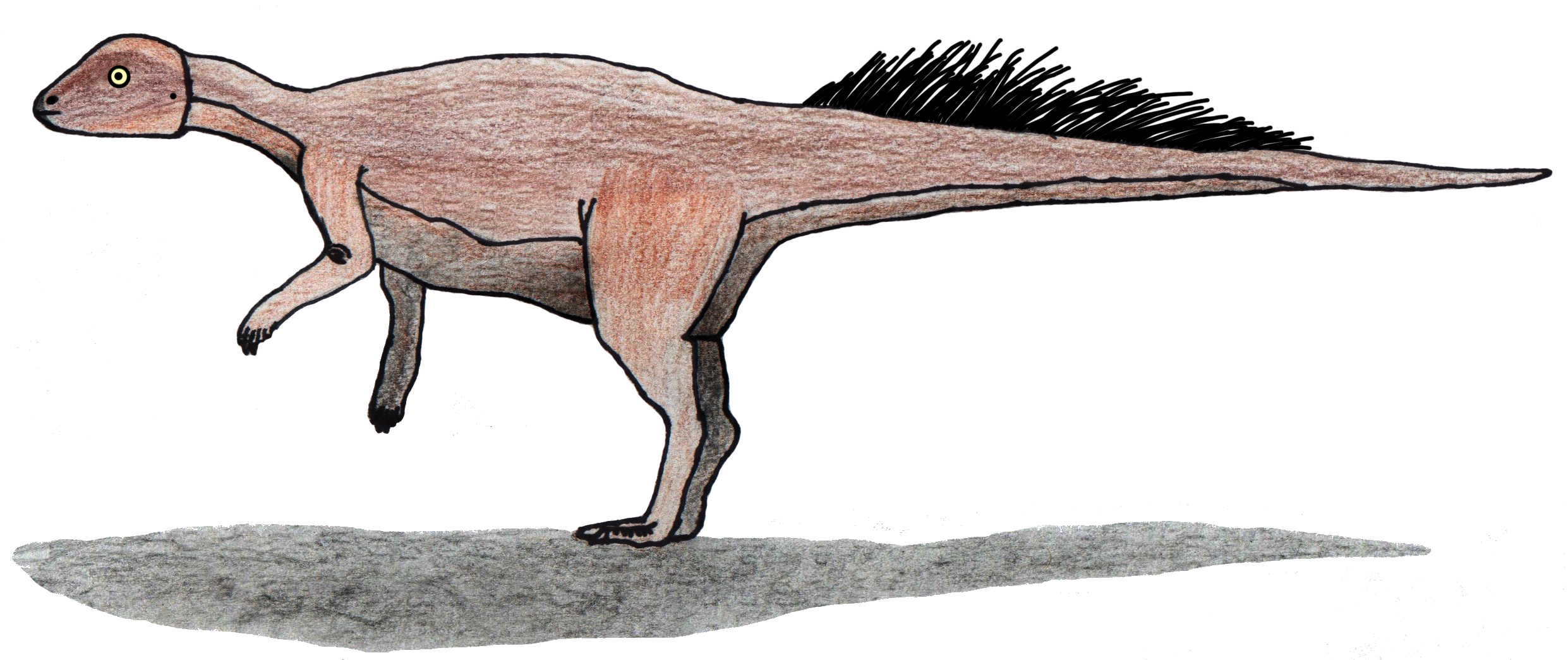 Hypothetical restoration of the basal ceratopsian Micropachycephalosaurus hongtuyanensis.